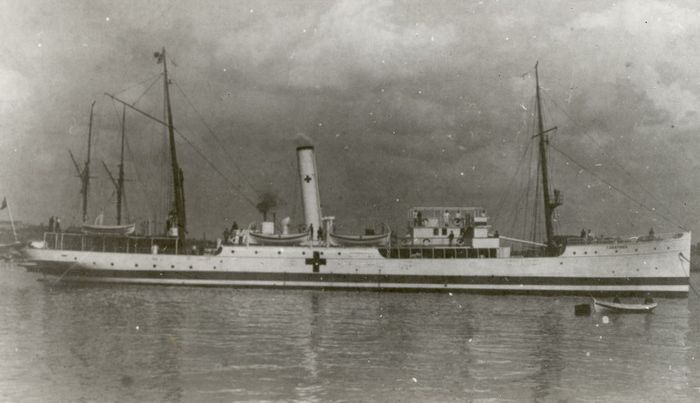 Hospital ship "Tovarishch"